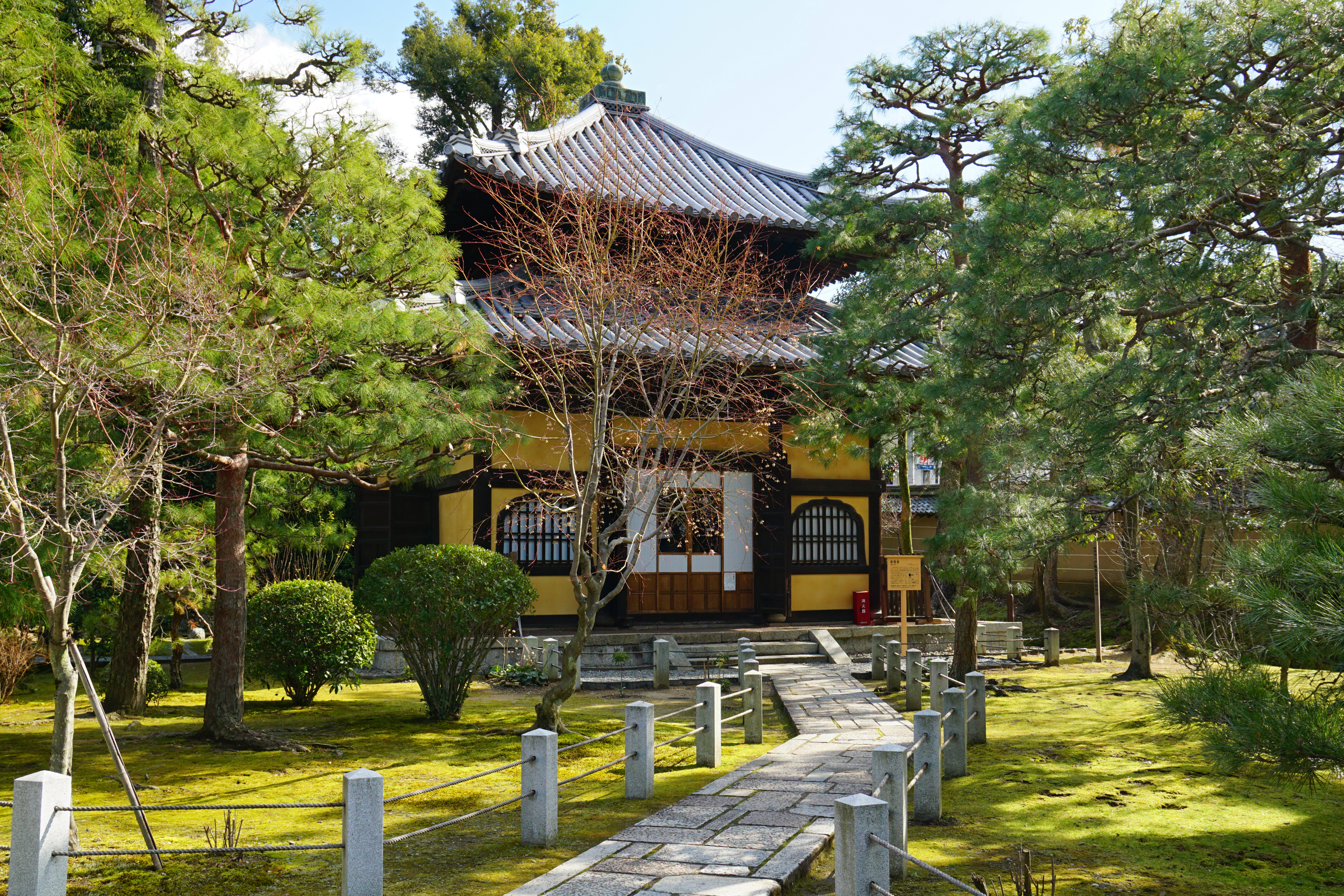 Myohoin in Kyoto, Kyoto prefecture, Japan